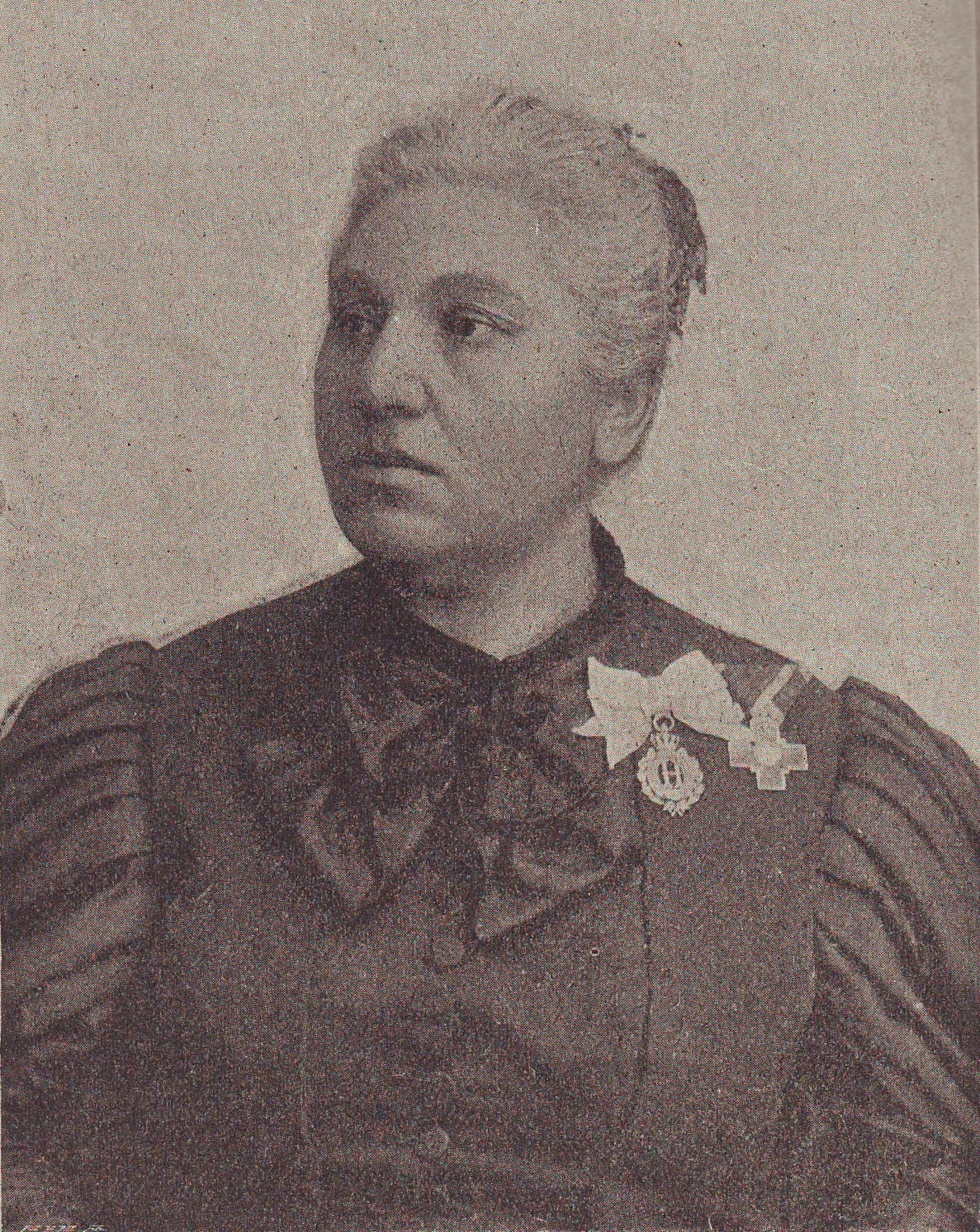 A photograph of Savka Subotić (1834-1918), a Serbian benefactor and one of the first feminists in Vojvodina. Srpski (latinica): Fotografija Savke Subotić (1834-1918), srpske dobrotvorke i jedne od prvih feministkinja u Vojvodini.